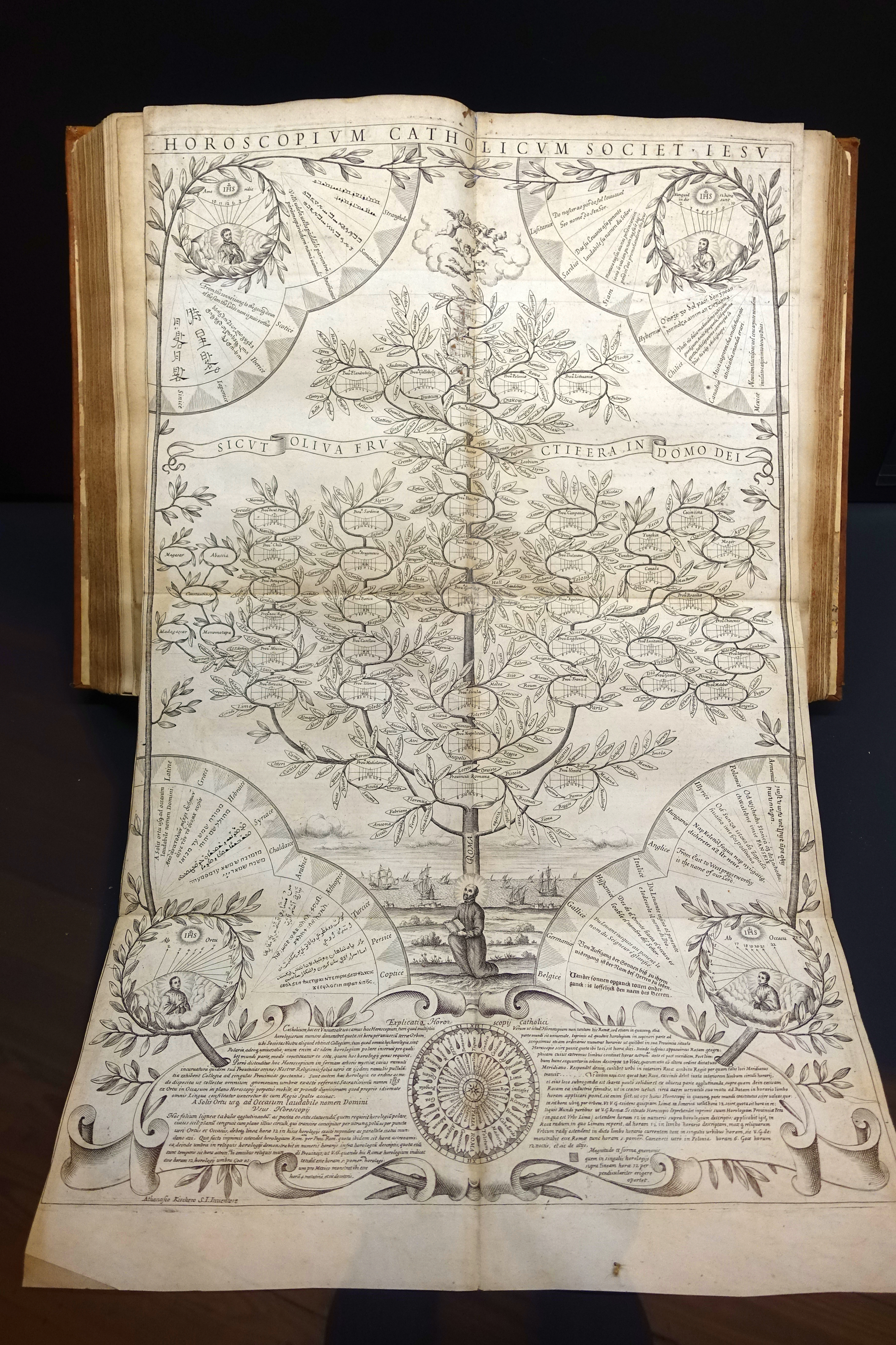 Exhibit in the Museu da Ciência da Universidade de Coimbra - University of Coimbra - Coimbra, Portugal.